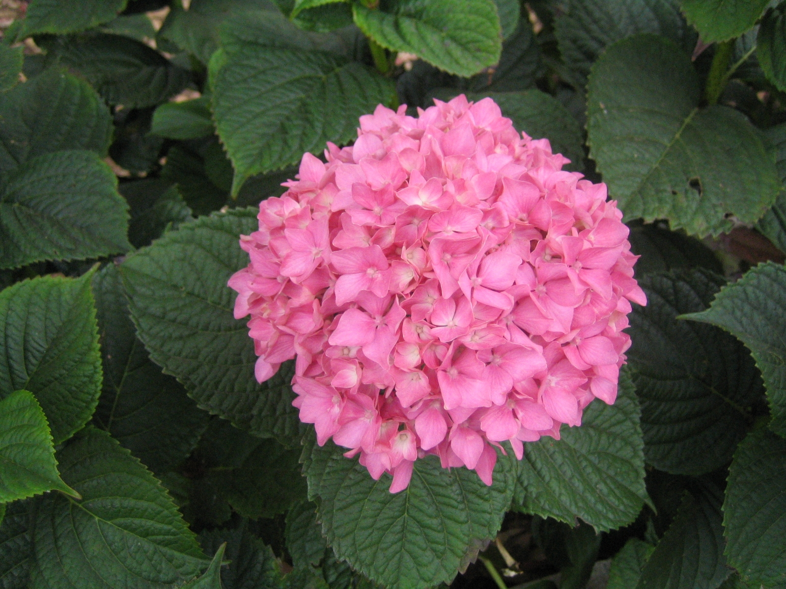 Hydrangea macrophylla cultivars